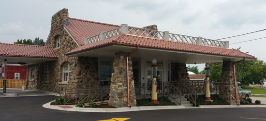 A photograph of the restored and remodeled Townsend Garage in Sycamore, IL.